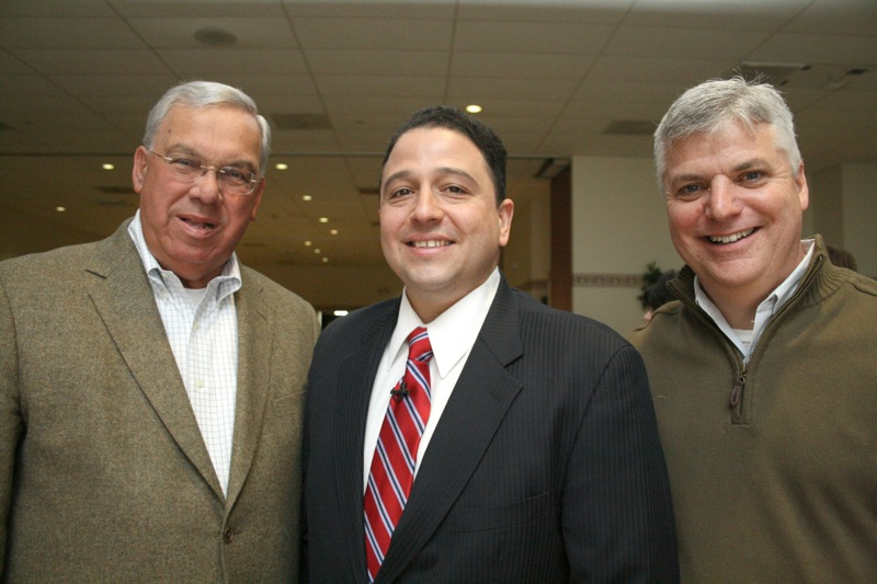 Boston Mayor Tom Menino, Boston City Councilor Rob Consalvo, Suffolk County District Attorney Dan Conley